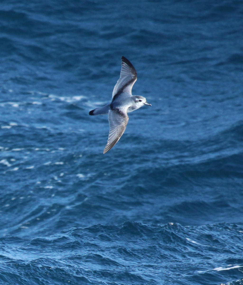 An Antarctic Prion flying over the South Atlantic Ocean between the Falkland Islands and South Georgia.